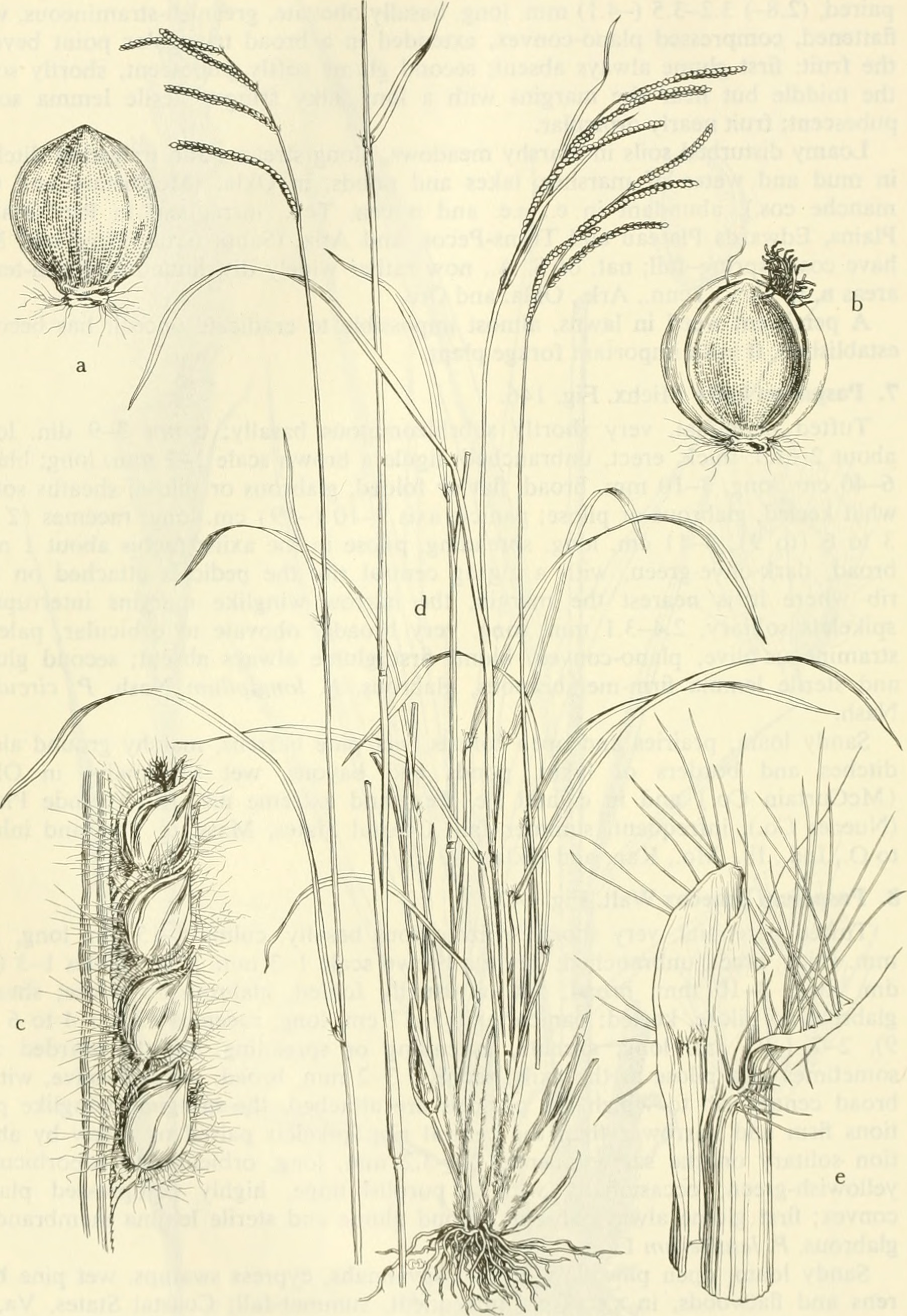 Title: Aquatic and wetland plants of southwestern United States Year: 1972 (1970s) Authors: Correll, Donovan Stewart, 1908-; Correll, Helen B Subjects: Aquatic plants -- Southwestern States; Wetland plants -- Southwestern States Publisher: [Washington Environmental Protection Agency; [For sale by the Supt. of Docs. , U. S. Govt. Print. Off. Text Appearing Before Image: ' Text Appearing After Image: Fig. 145: Paspaliini cUhitatum: a, floret, showing lemma, X 8; b, florel, showing palea. X 8; c, rachis, showing the 2 rows of hairy spikelets, X 4; d. habit, showing the noticeably pubescent lowest sheaths, the arching leaves and the spreading racemes, X '/-,; e, upper sheath, pubescent only around ligule and on base of blade, X 4. (From Mason, Fig. 78).